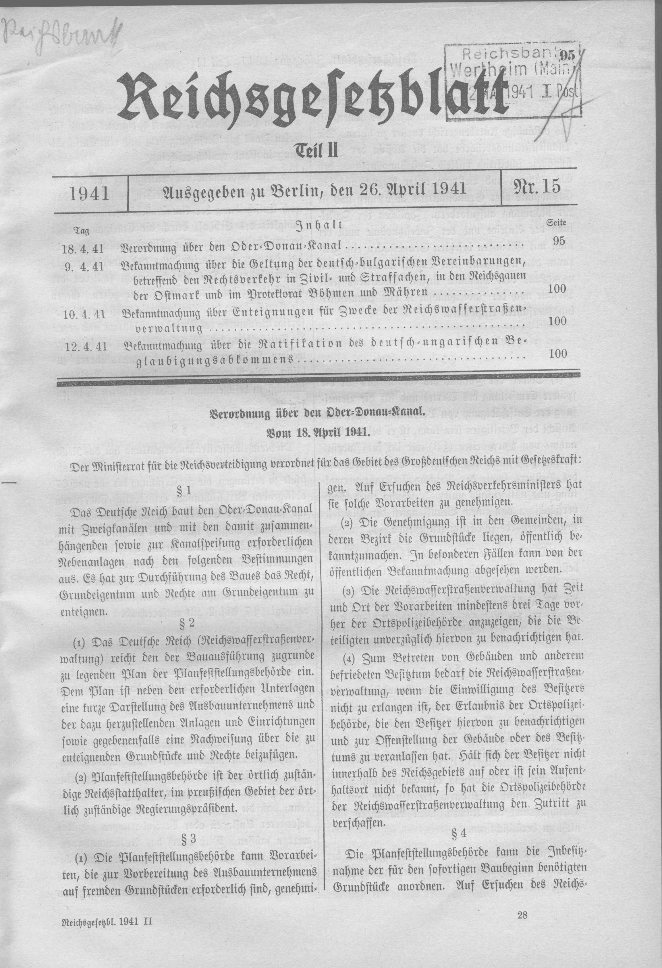 Scan from the Imperial Law Gazette of Germany, 1941, part 2